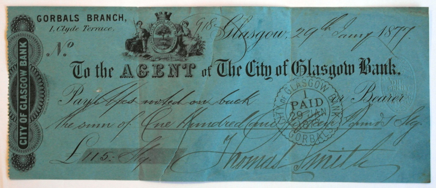 A cleared cheque from 1877, the year before the collapse of the City of Glasgow Bank